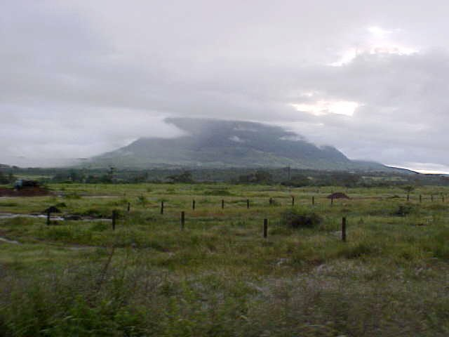 On the way to Kamsar, Guinea from Conakry